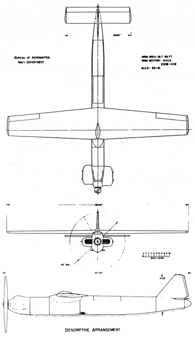 Three-view arrangement of the Radioplane KD2R-3 target drone.